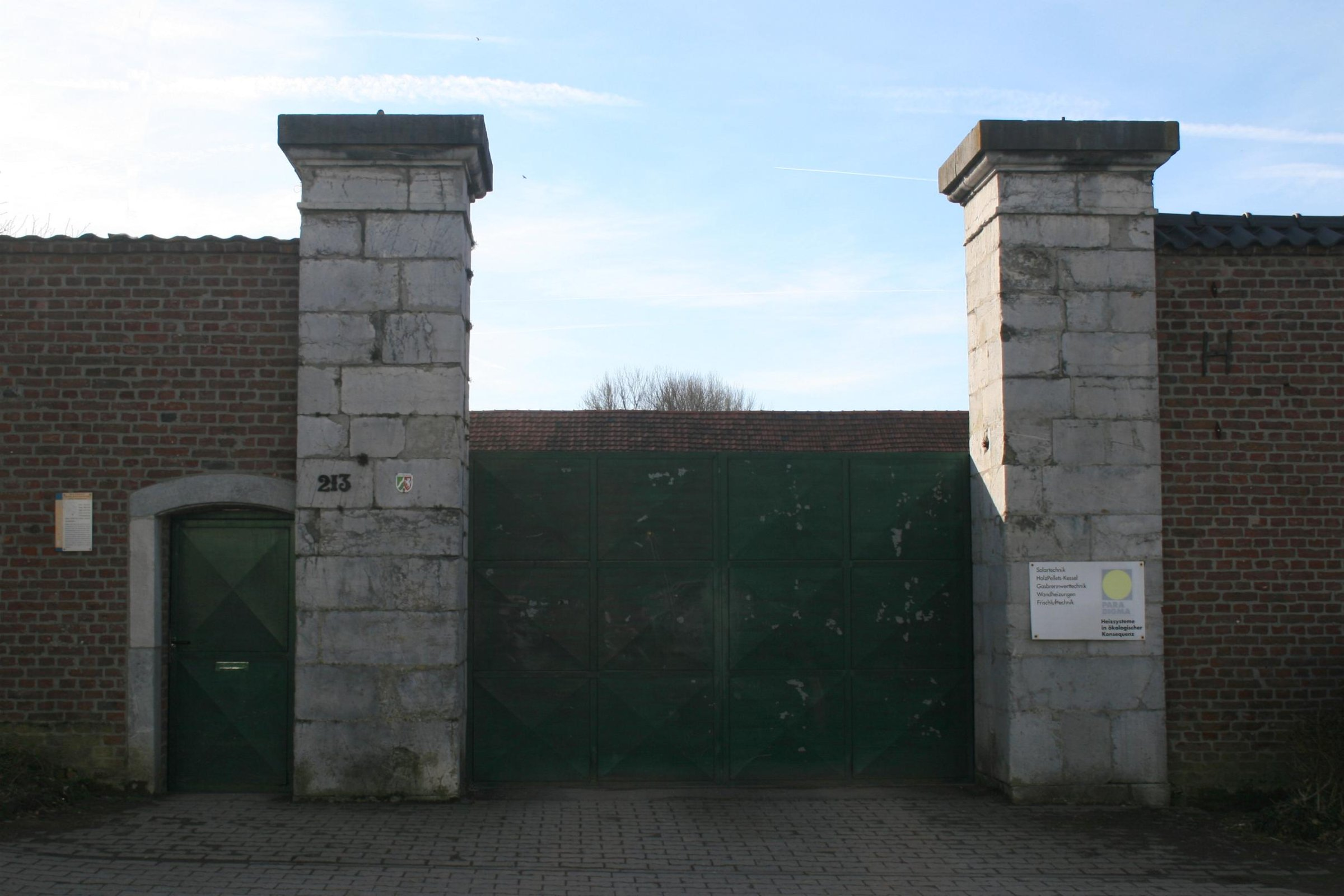 Cultural heritage monument No. 34 in Jülich